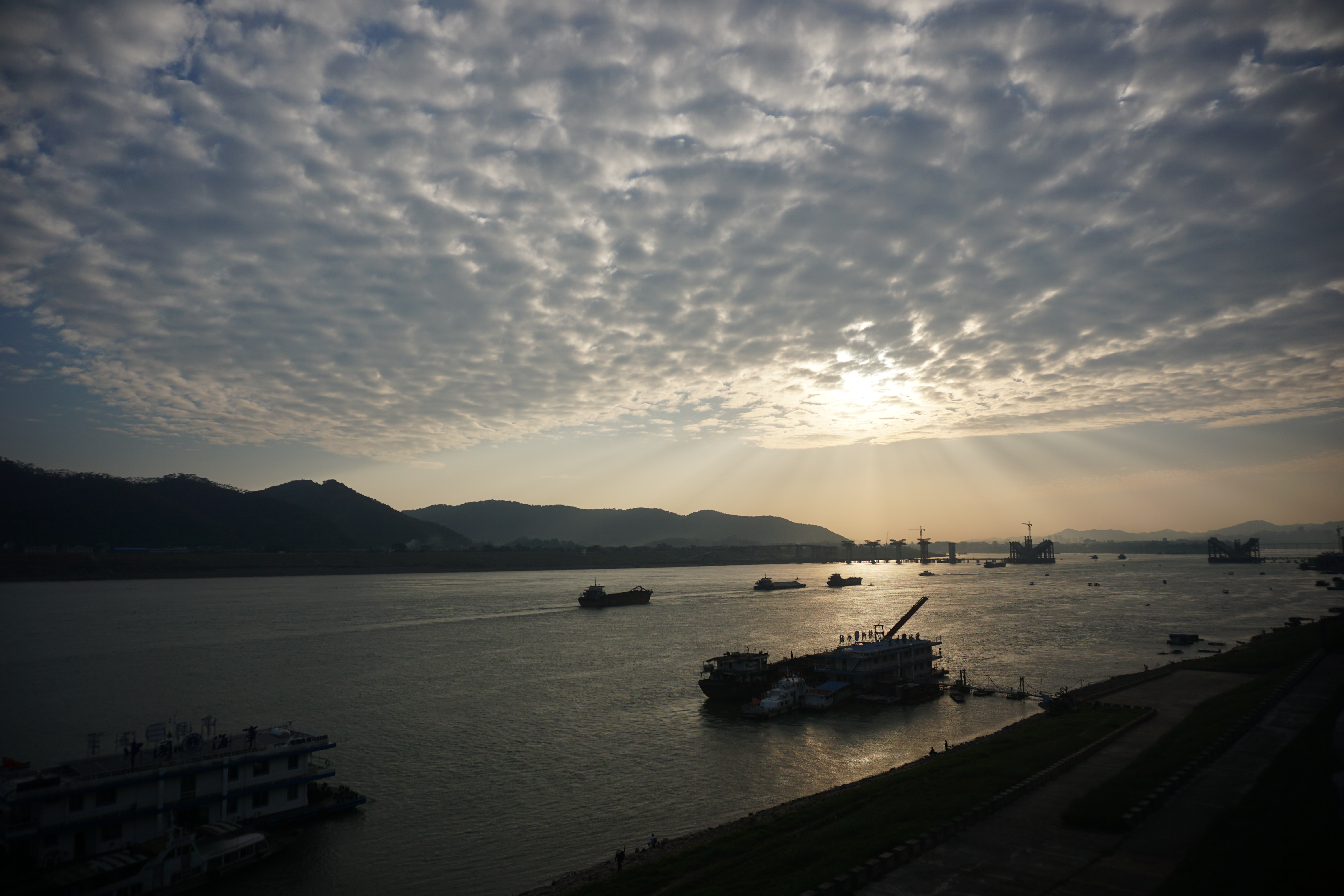 Sunset through clouds on Xi River, the upstream section of Pearl River mainstream, shot from north bank in Wuzhou, Guangxi Zhuang Autonomous Region.